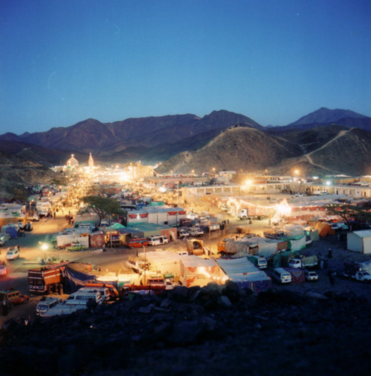 Dargah of Qutbul Akbar Imam Shadhili. This image was taken on His Holy Urus Shawwal 12